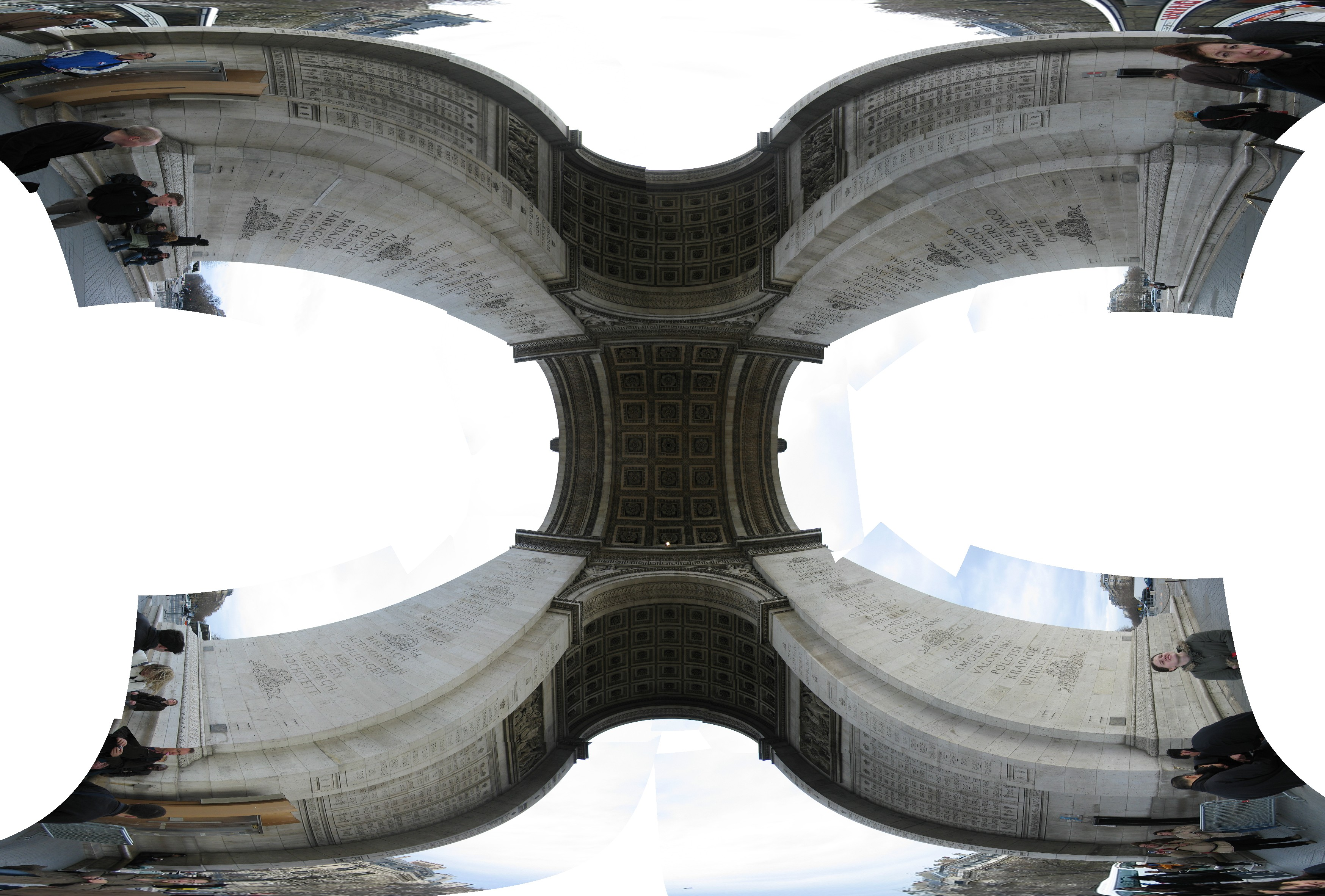 Photo's taken on a trip to Paris from 19 to 22 jan, 2007 Arc de Triomphe, photographed from the exact center.